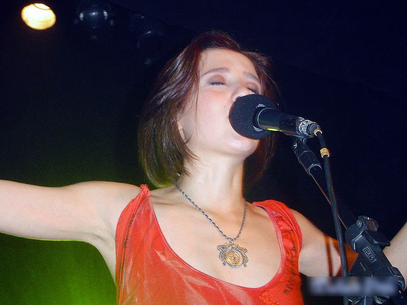 Brazilian singer and actress Marjorie Estiano